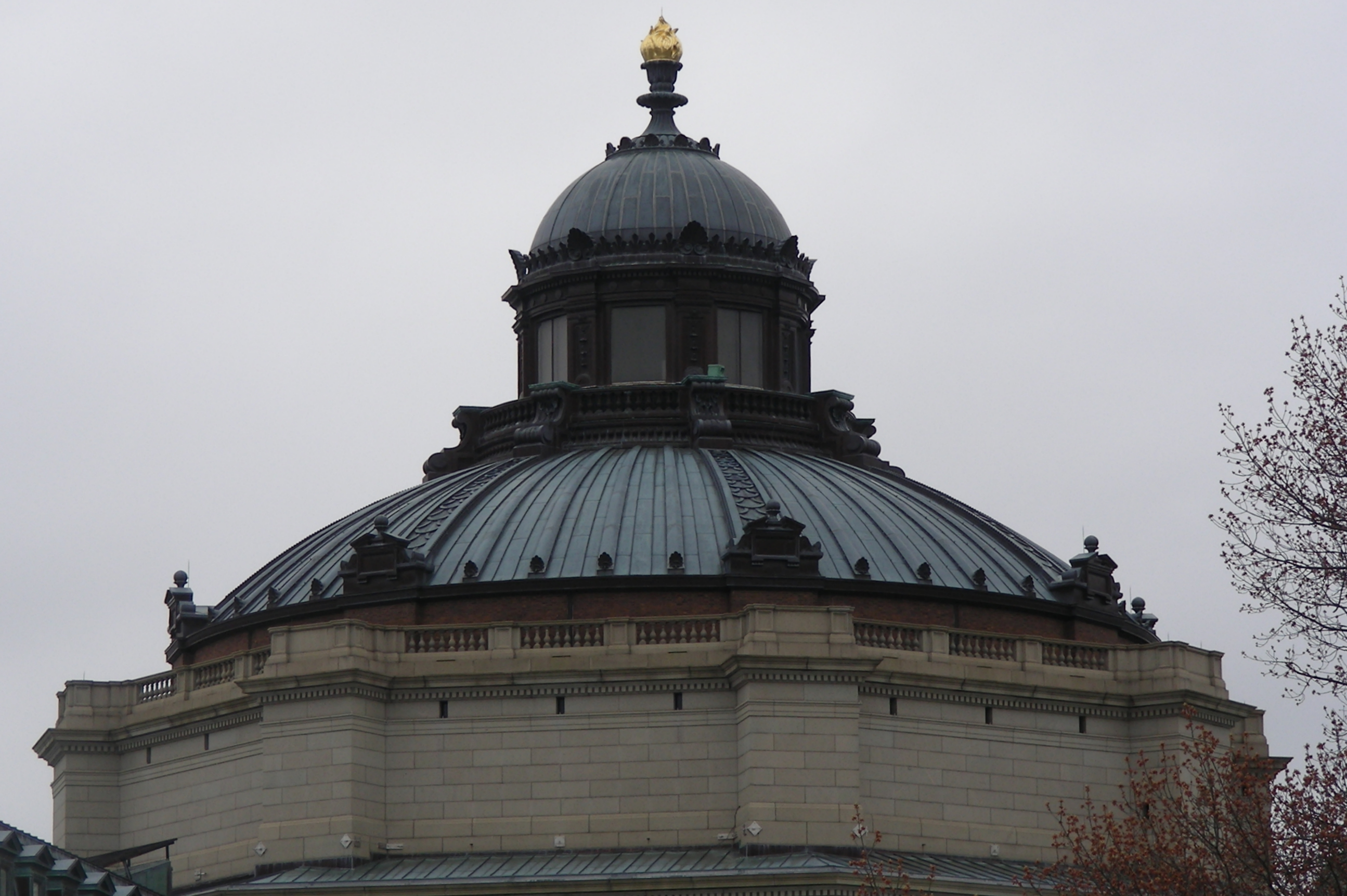 The top level of the Thomas Jefferson Building, part of the Library of Congress, Washington, DC, USA. Taken with a Nikon Coolpix S10 camera.